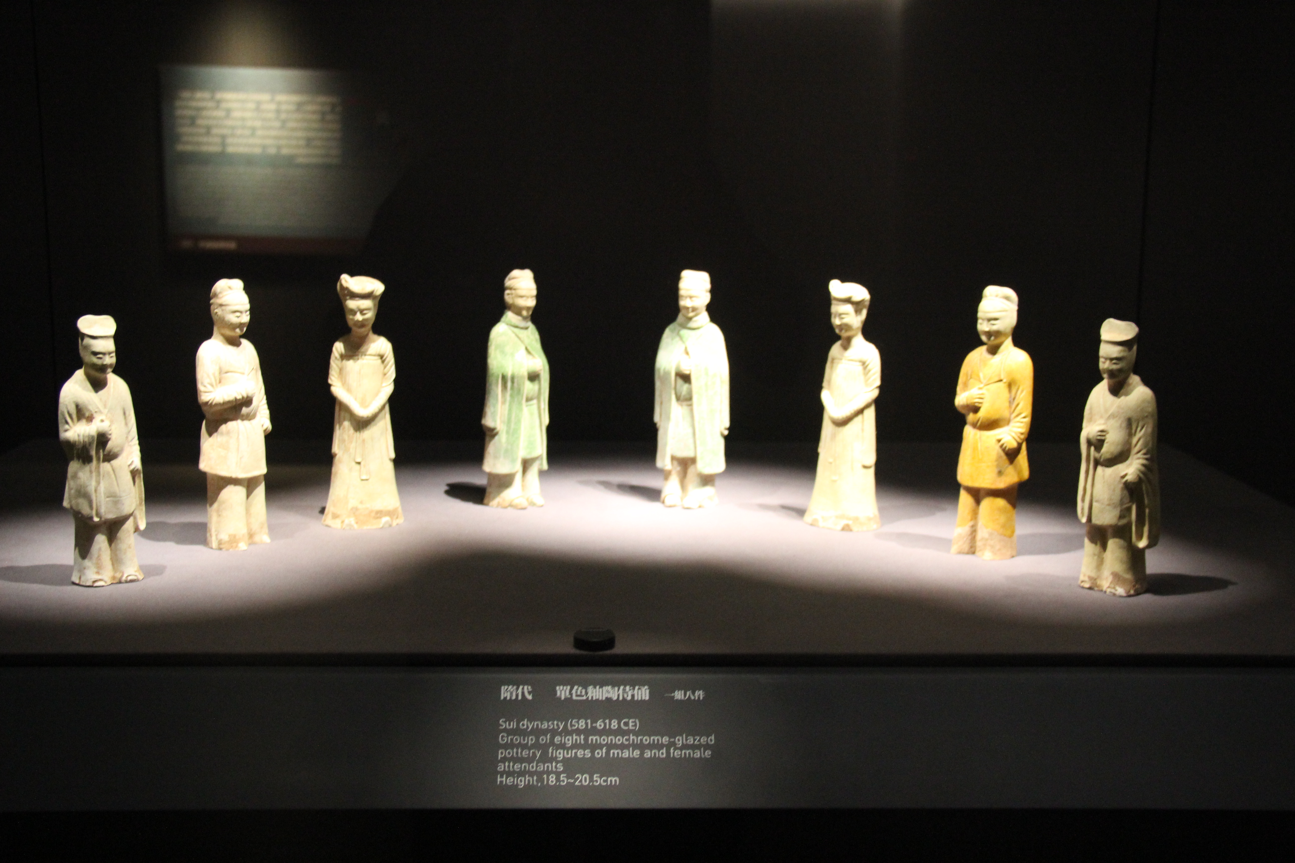 Sui Dynasty (581-681 CE) Group of eight monochrome-glazed pottery figures of male and female attendants. Height, 18.5~20.5cm